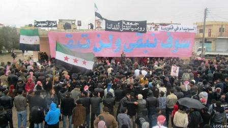 gggggggggggggggggggggggggg